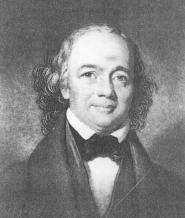 Richard Henry Wilde, US Representative from Georgia